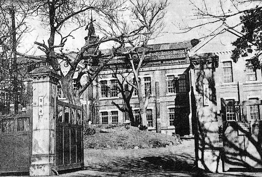 Imperial Police Guard Headquarters